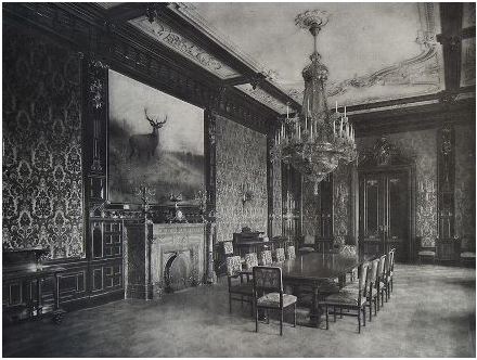 The royal guest suite dining room in the Royal Castle of Budapest.